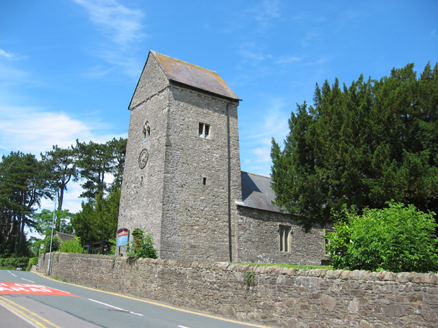 Lisvane Church. Churches in this style are scattered across South Wales